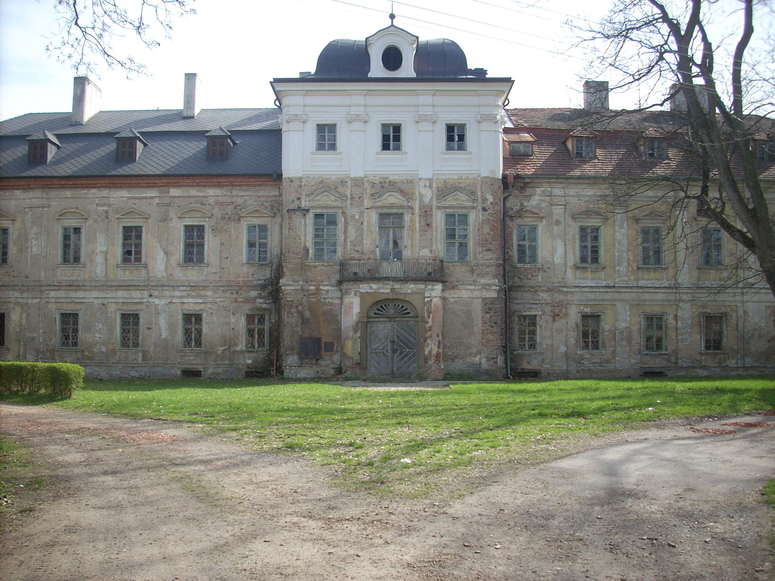 Chateau in the Dolni Lukavice